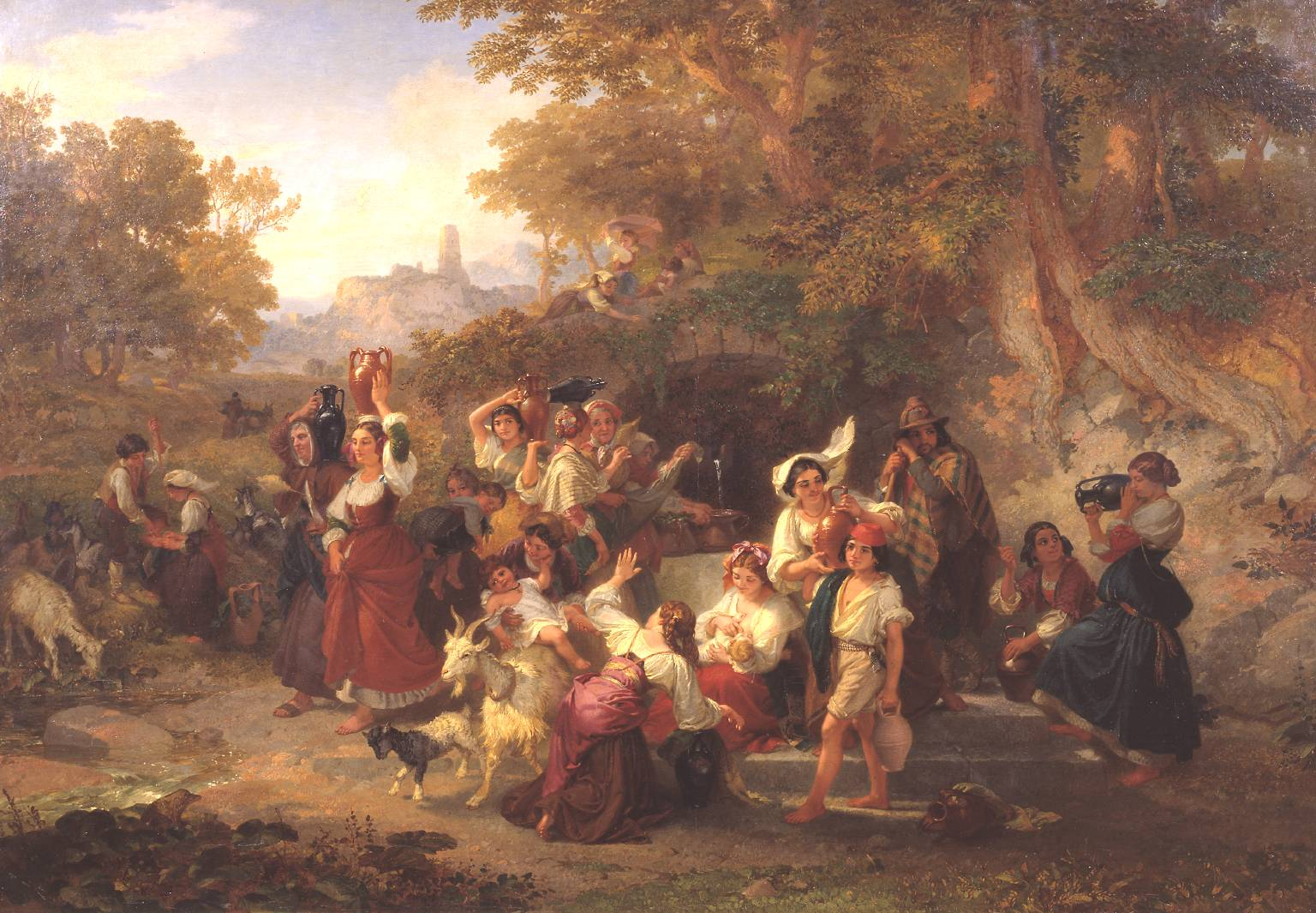 A reverberatory is on the right, rolling mills on left.